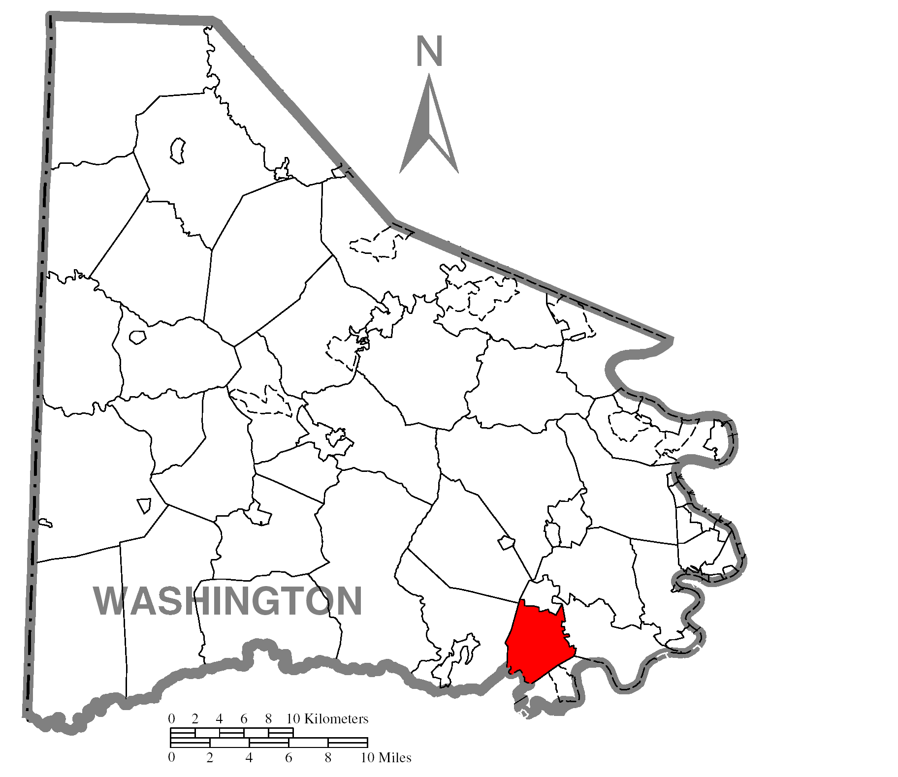 Map of Washington County higlighting Deemston.